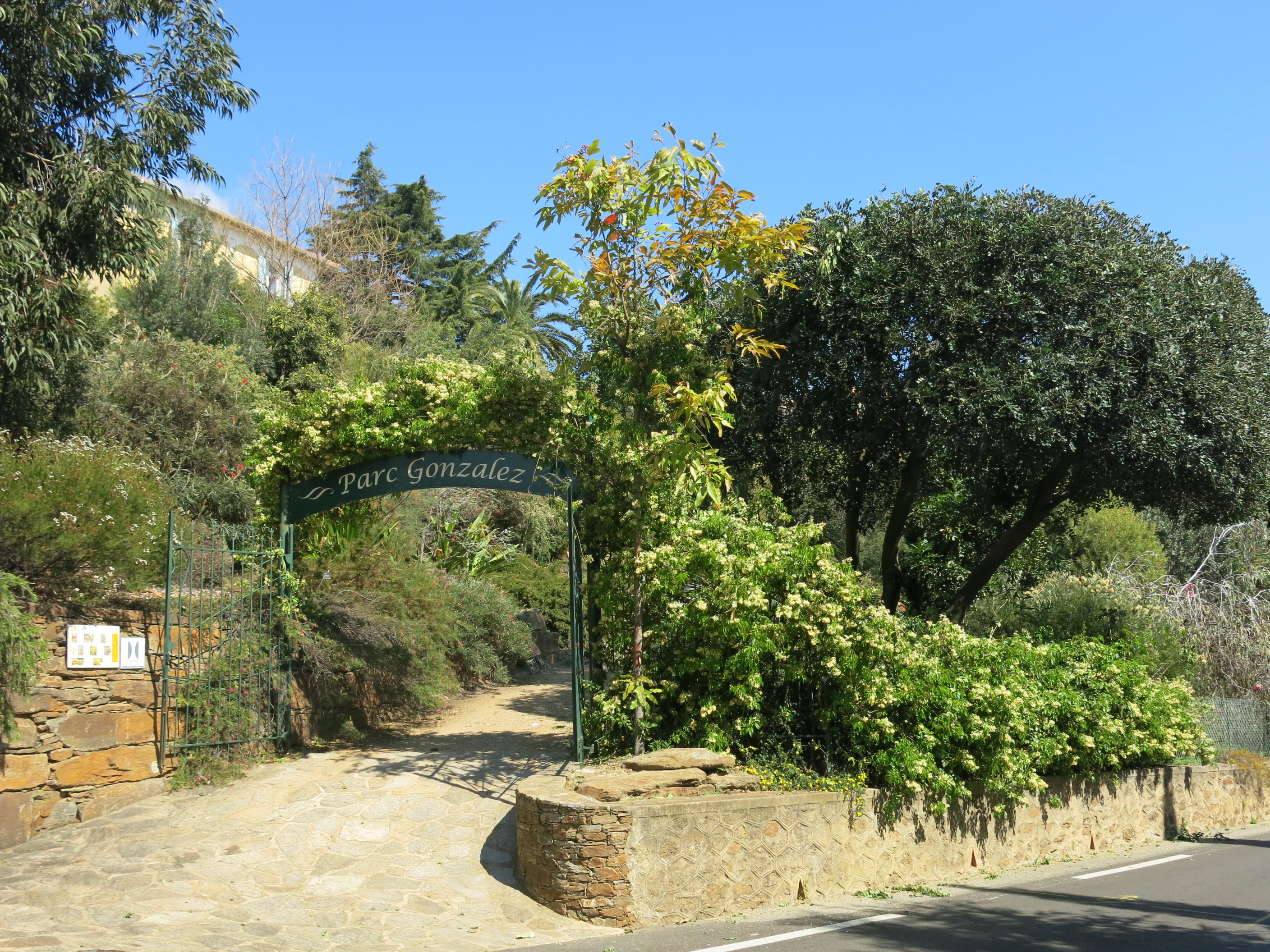 Entrance of the parc Gonzalez in Bormes-les-Mimosas (Var, France).